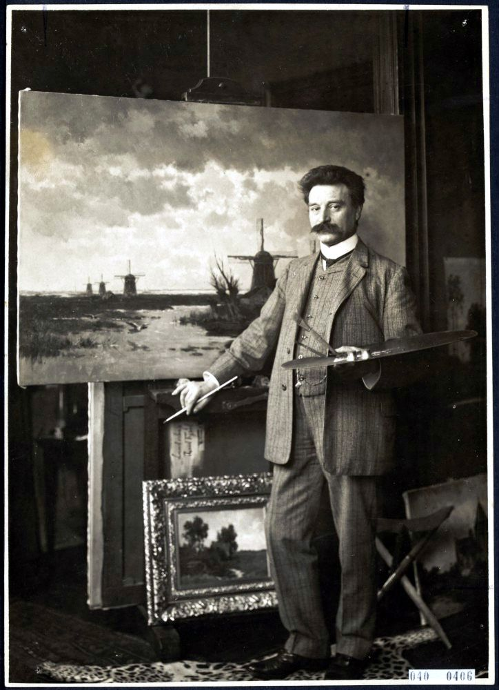 Willem Rip. Landschapsschilder, 1922